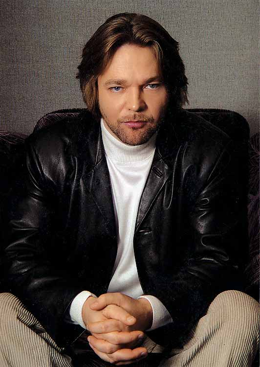 actor